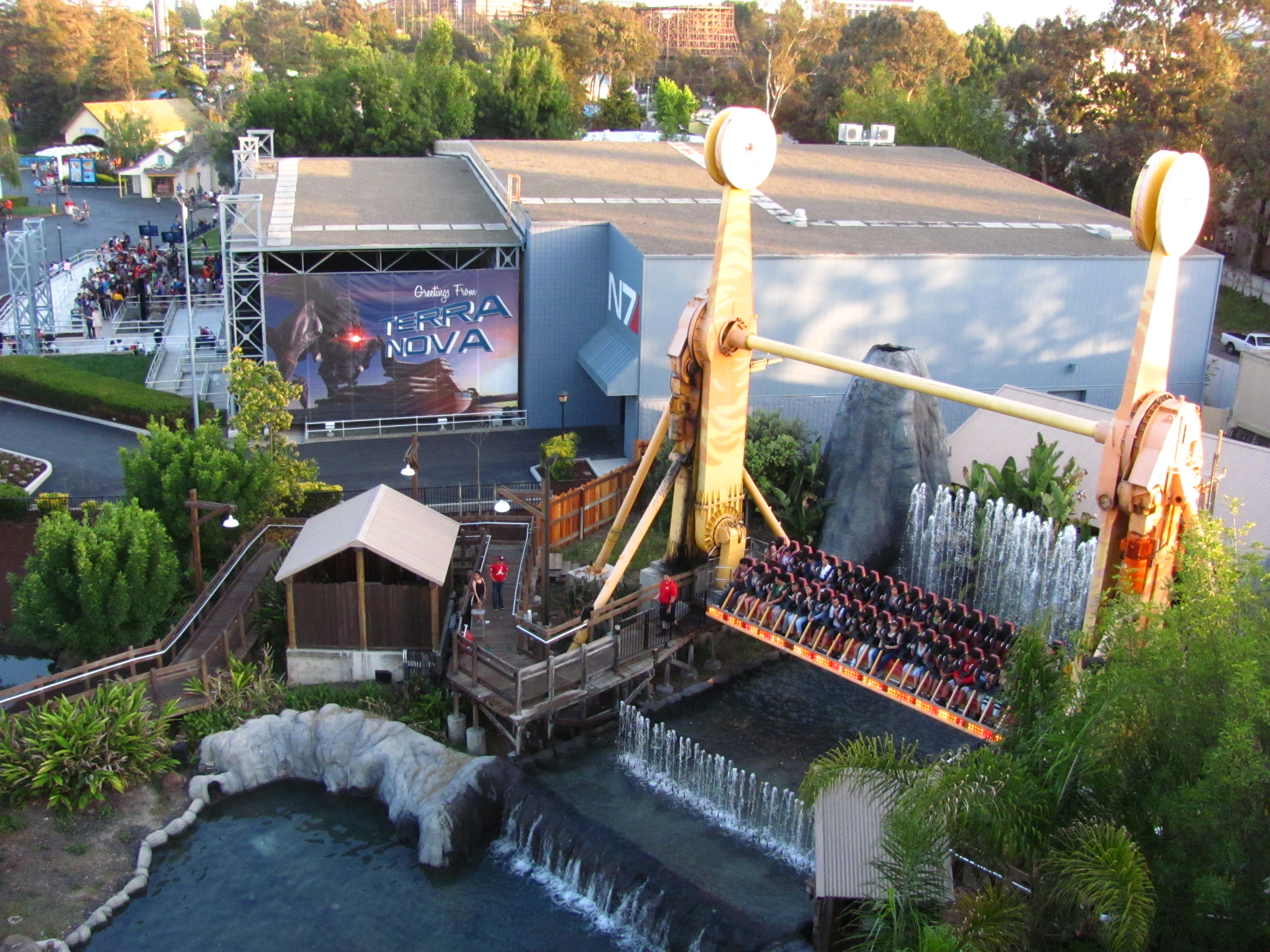 The photo of theatrical amusement park ride at California's Great America in Santa Clara, California.